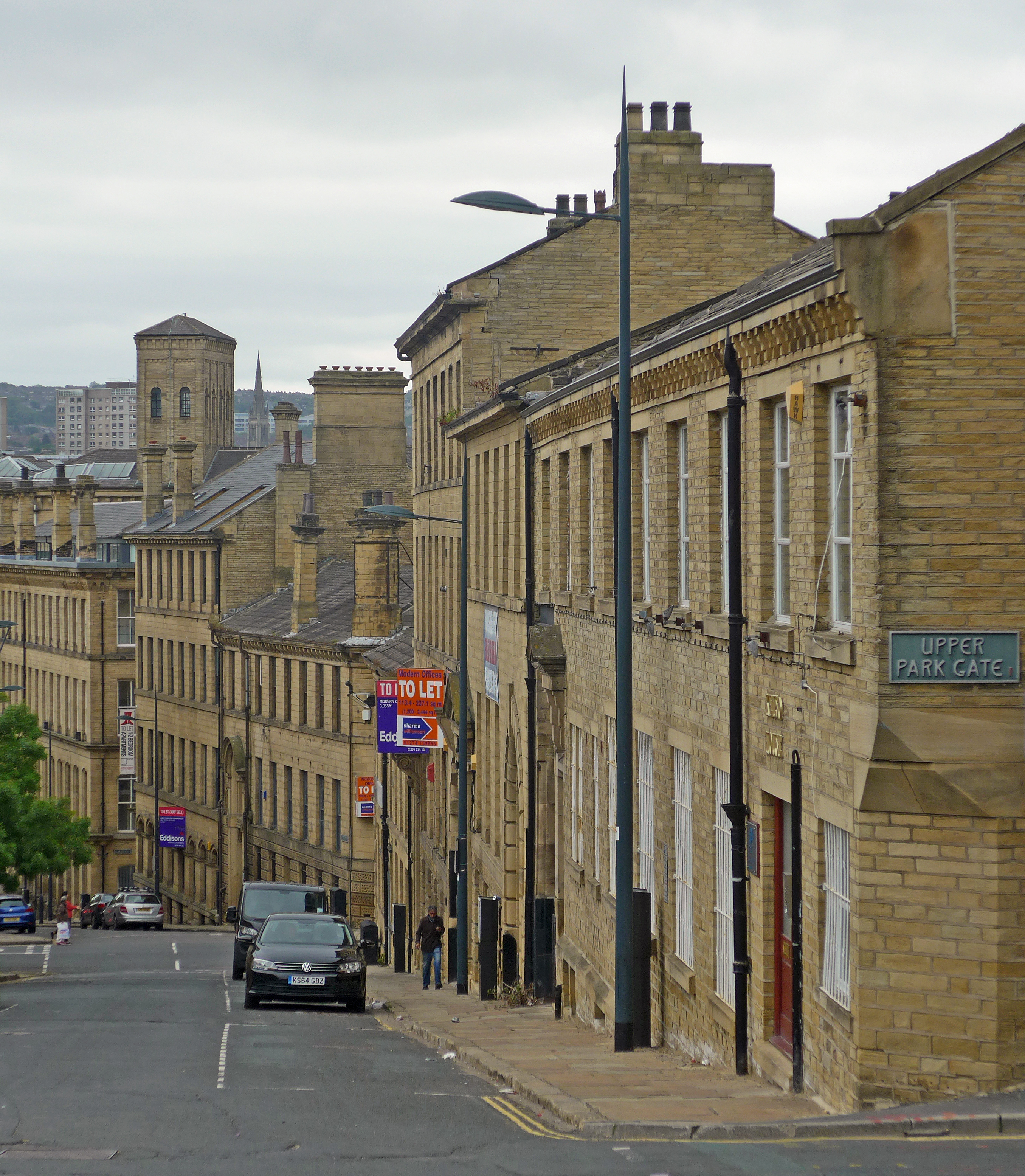 Junction of Burnett Street, Bradford, and Upper Park Gate.